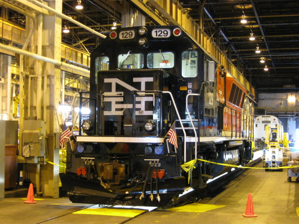 Metro-North Railroad/Connecticut DOT Brookville BL20GH #129 sits inside the Croton-Harmon Shops, and is on display for the 2008 Croton Shops Open House.